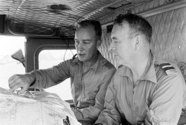 The Officer Commanding RAAF component at Vung Tau, 33113 Group Captain (Gp Capt) Peter Frank Raw, of Ipswich, Qld, (left) and Commander of RAAF Forces Vietnam, 370 Air Commodore (Air Cdr) Jack Dowling, of Adelaide, SA, (right) survey the area of operations of the No 9 Squadron Iroquois based at Vung Tau, from the back of their flying observation platform in the RAAF Iroquois.